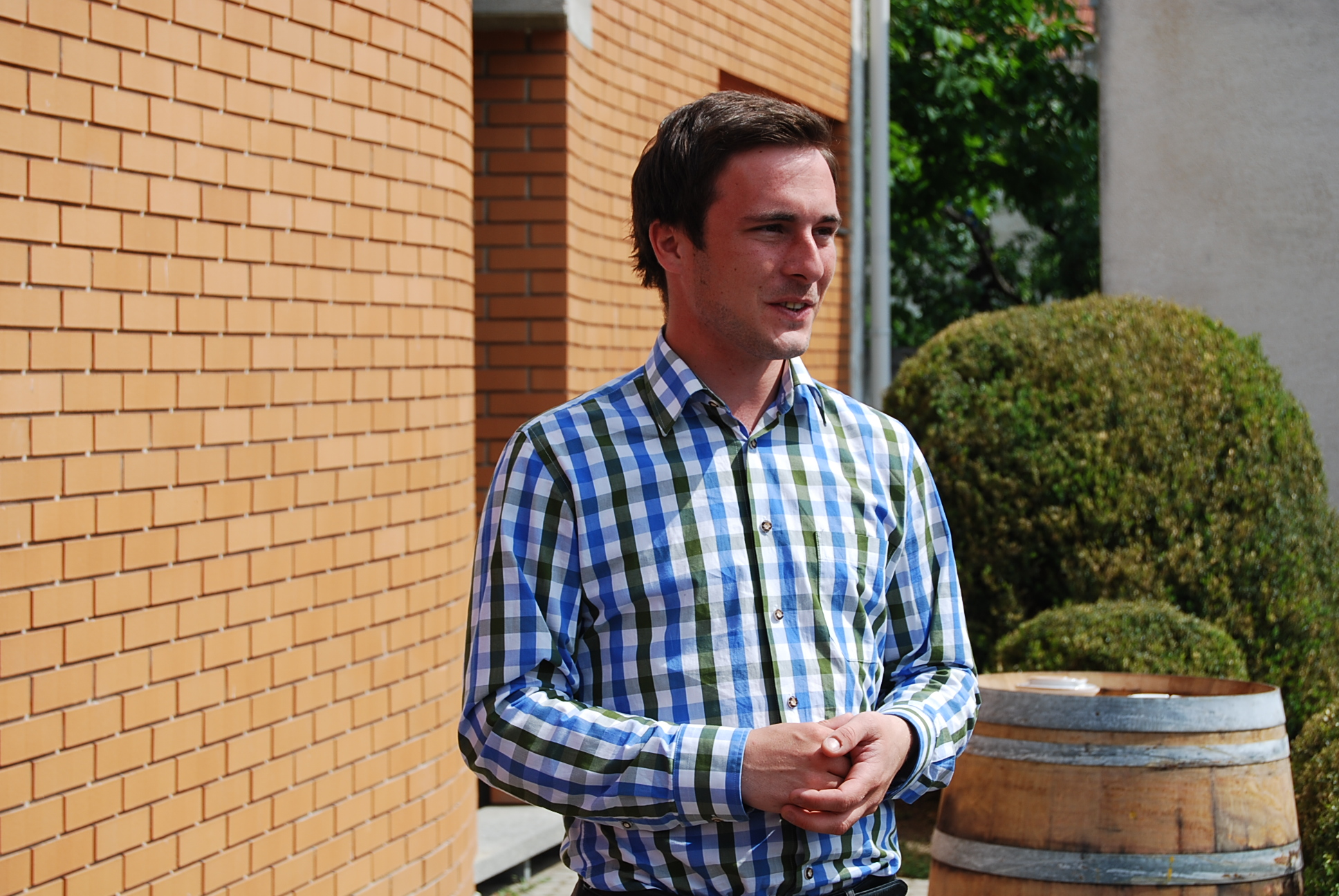 Georg Prieler